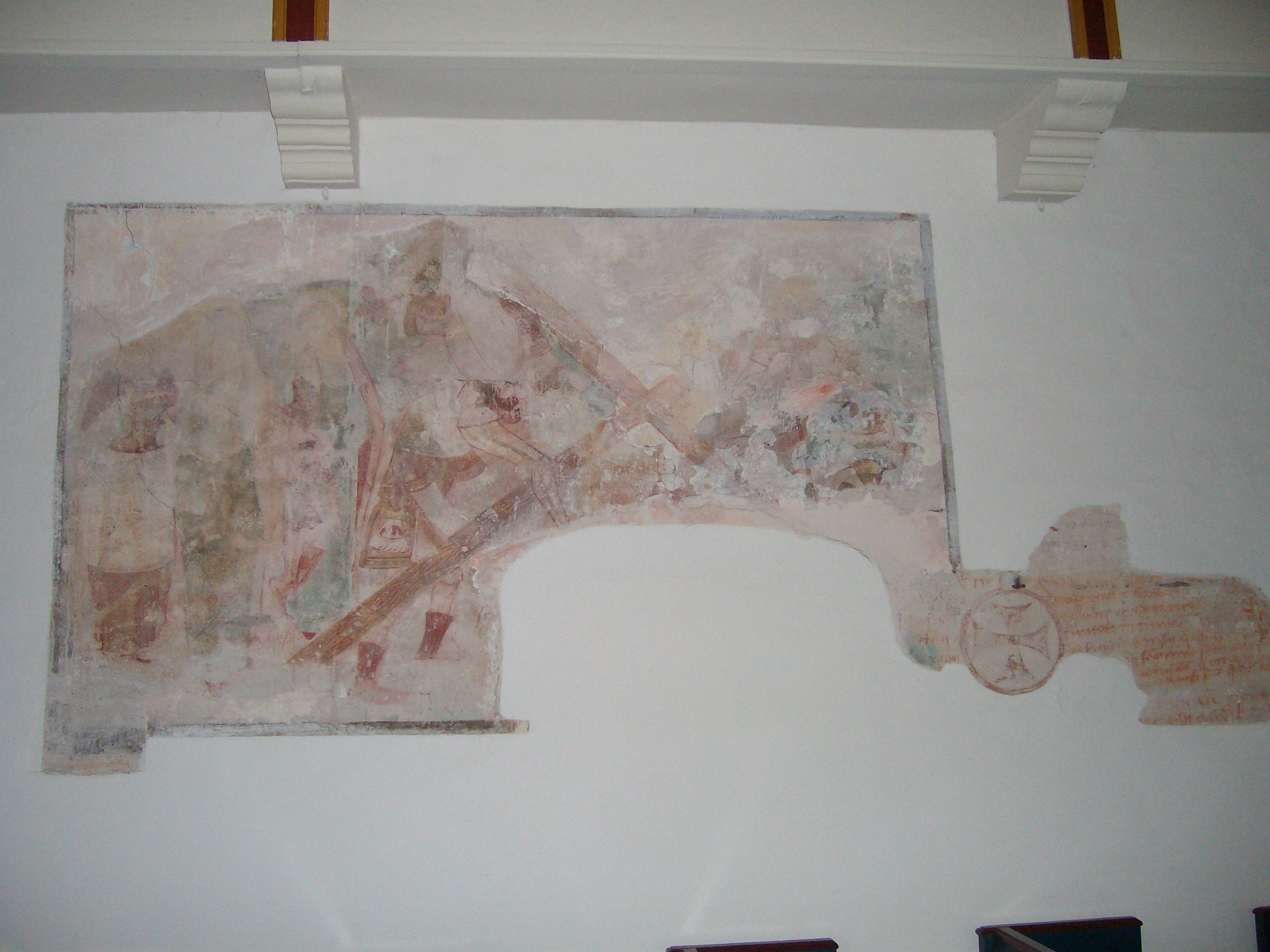 Painting in historic church in Vellage, East Frisia, Germany